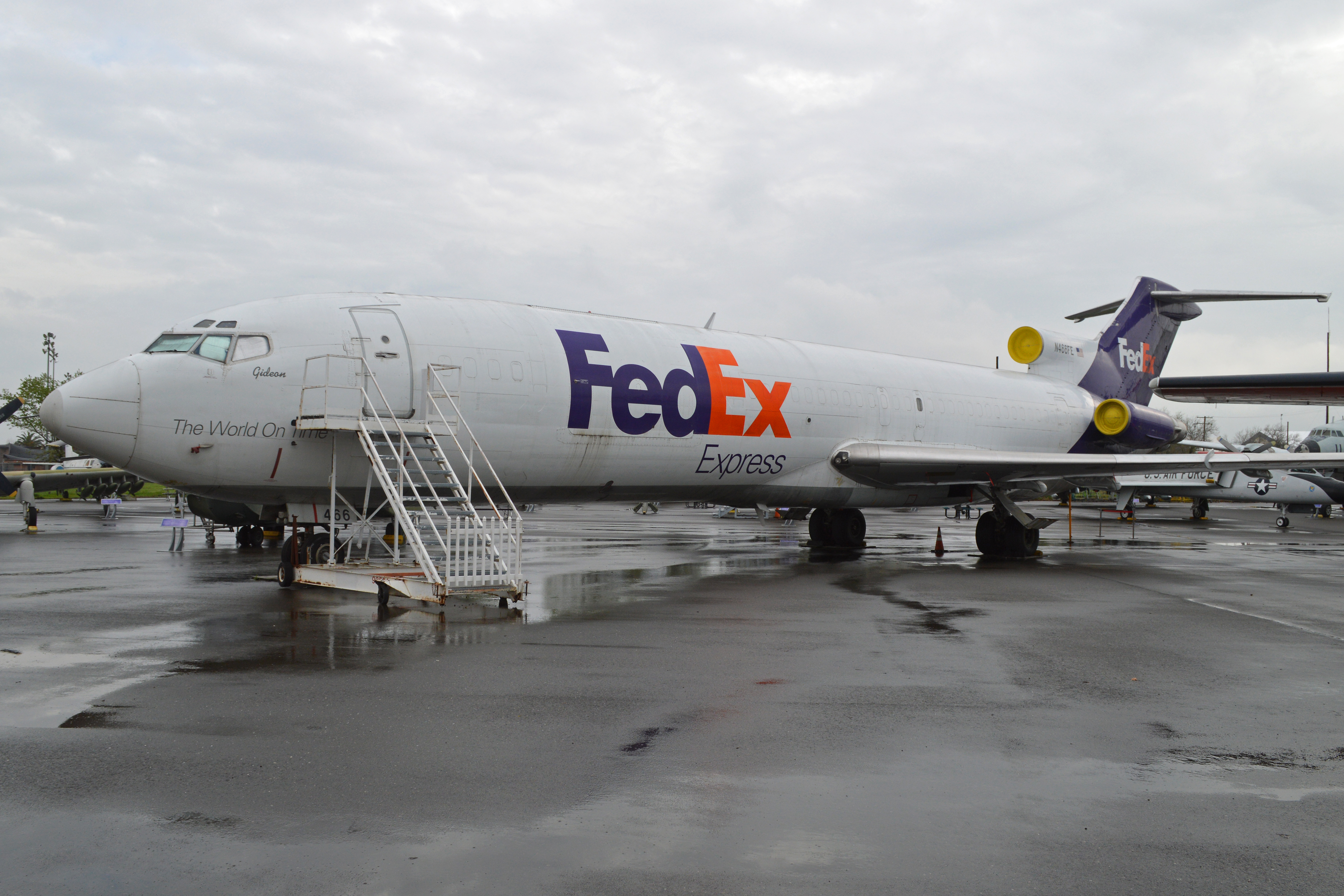 c/n 21292, l/n 1240. Built 1976. Wearing the colours of FedEx, who donated it to the museum. On display at the Aerospace Museum of California, McClellan Airport, CA. 4th March 2016